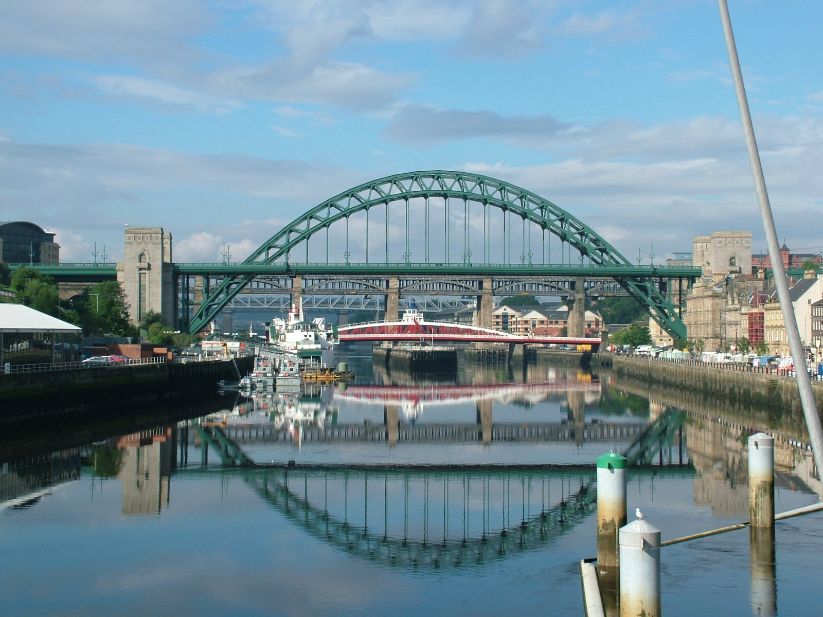 The Tyne Bridge across the River Tyne between Newcastle upon Tyne and Gateshead. Taken from the deck of the Gateshead Millennium Bridge, looking west. The Tyne Bridge is the compression arch bridge in green. Below and behind it is the Swing Bridge, in red. Behind that, in grey, is the High Level Bridge. Behind that is the Queen Elizabeth II Metro Bridge. You can just about see the pillars of the King Edward VII Bridge, which carries the mainline railway across the river into Newcastle Central station; and, I assure you, the Redheugh Bridge (a modern road bridge) is hidden behind them all. The boats on the Gateshead shore are the Archer class patrol vessels of the HMS Calliope shore establishment, and the permanently moored Tuxedo Princess floating nightclub (the former car ferry TSS Caledonian Princess). This photo appears to have been taken from the Tyne's easternmost bridge, the low-level, swivelling, pedestrian Millenium Bridge.